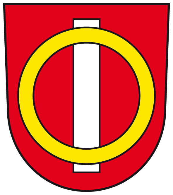 Coat of arms of Offenbach an der Queich